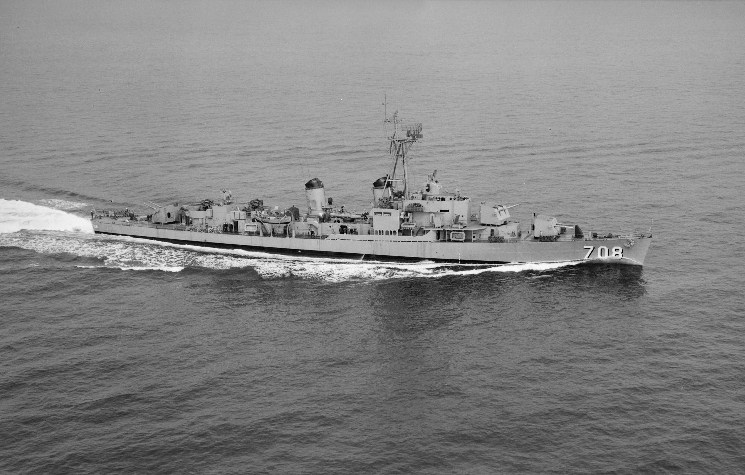 The U.S. Navy destroyer USS Harlan R. Dickson (DD-708) underway in the early 1950s.